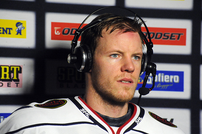 Jonas Almtorp during a SHL game against AIK.